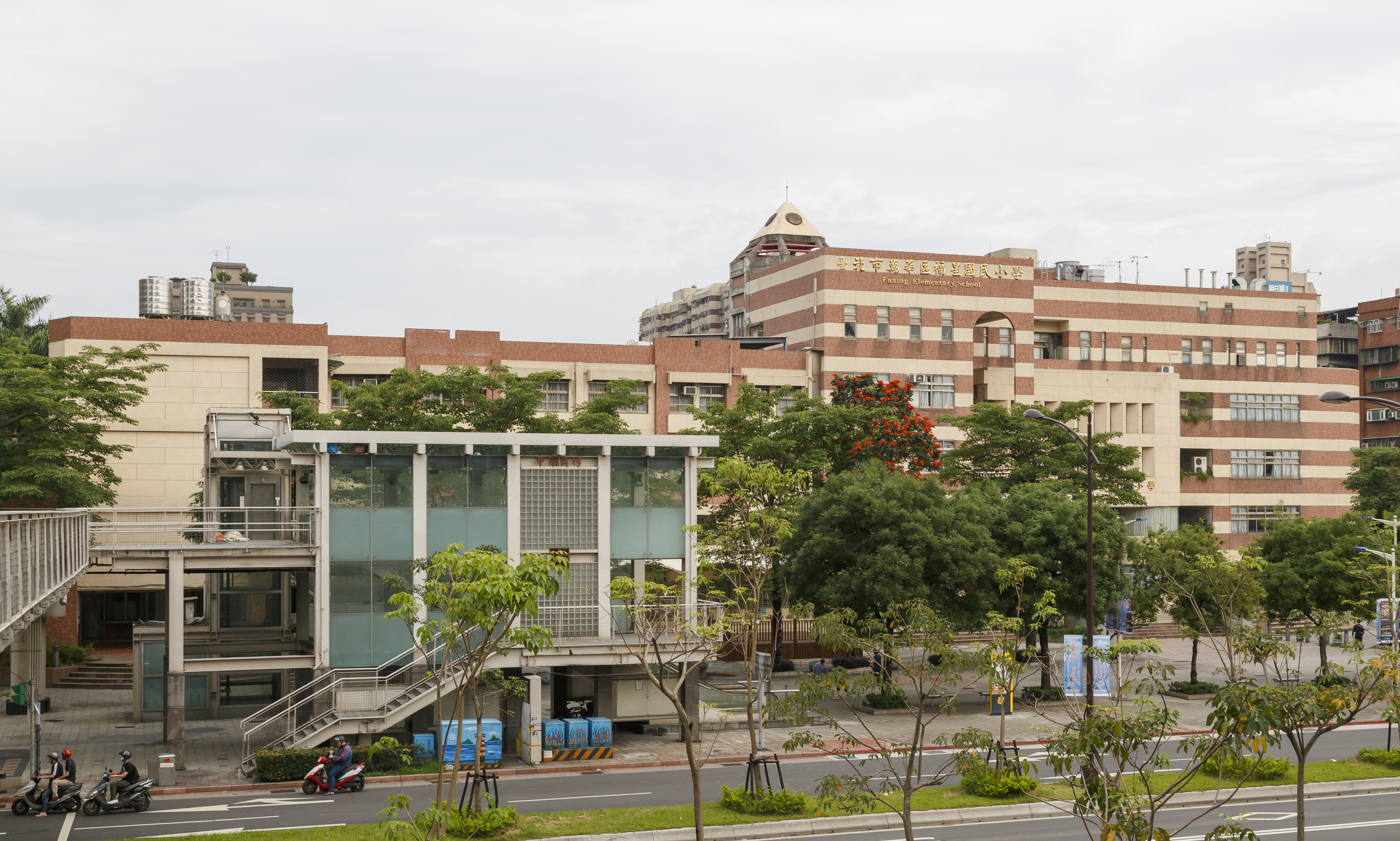 Taipei, Taiwan: Fuxing Elementary School / 福星國小 (台北市)